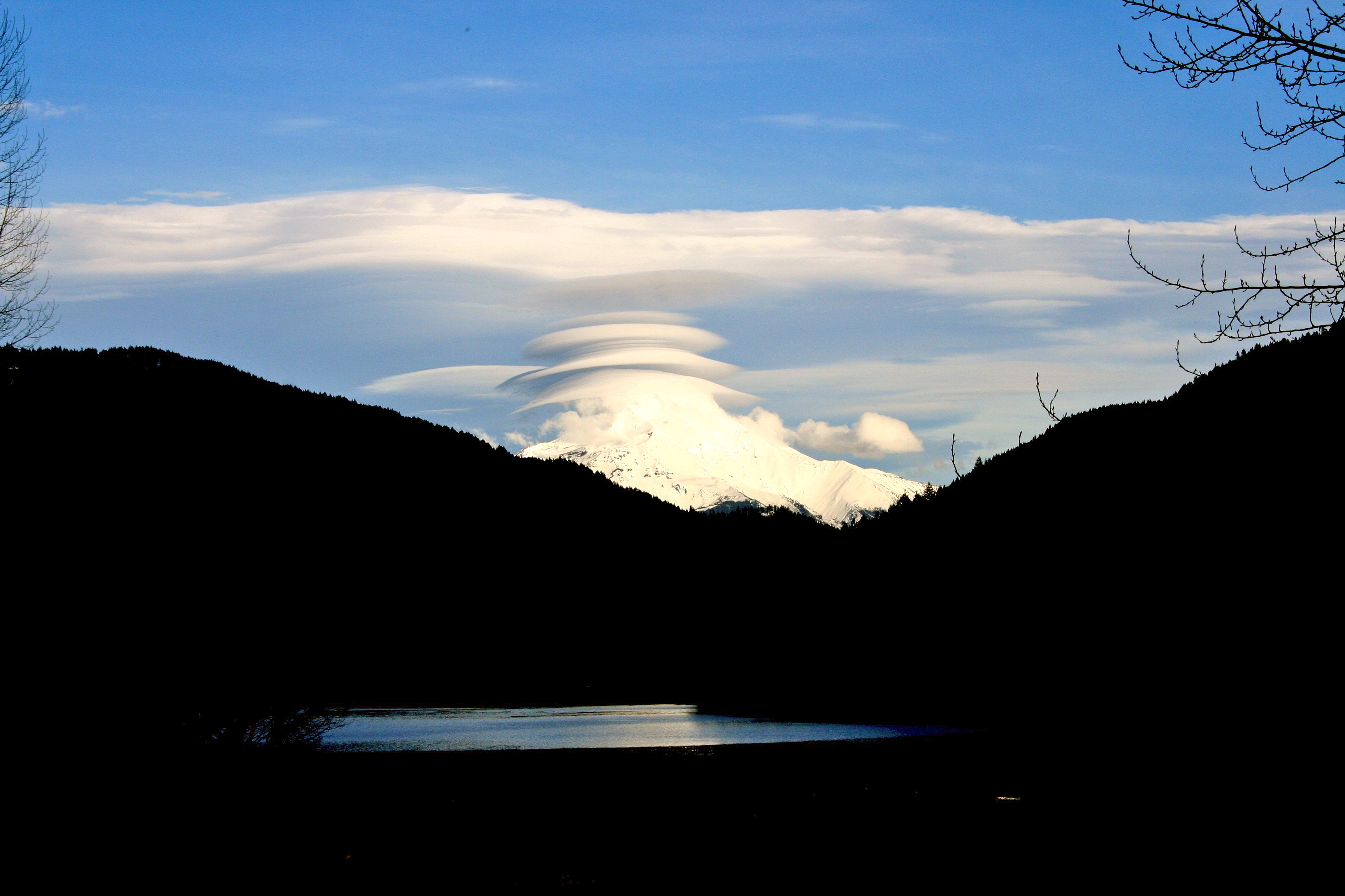 Mountain Jefferson behind Detroit Lake in Oregon, showing a perfect example of lenticular clouds